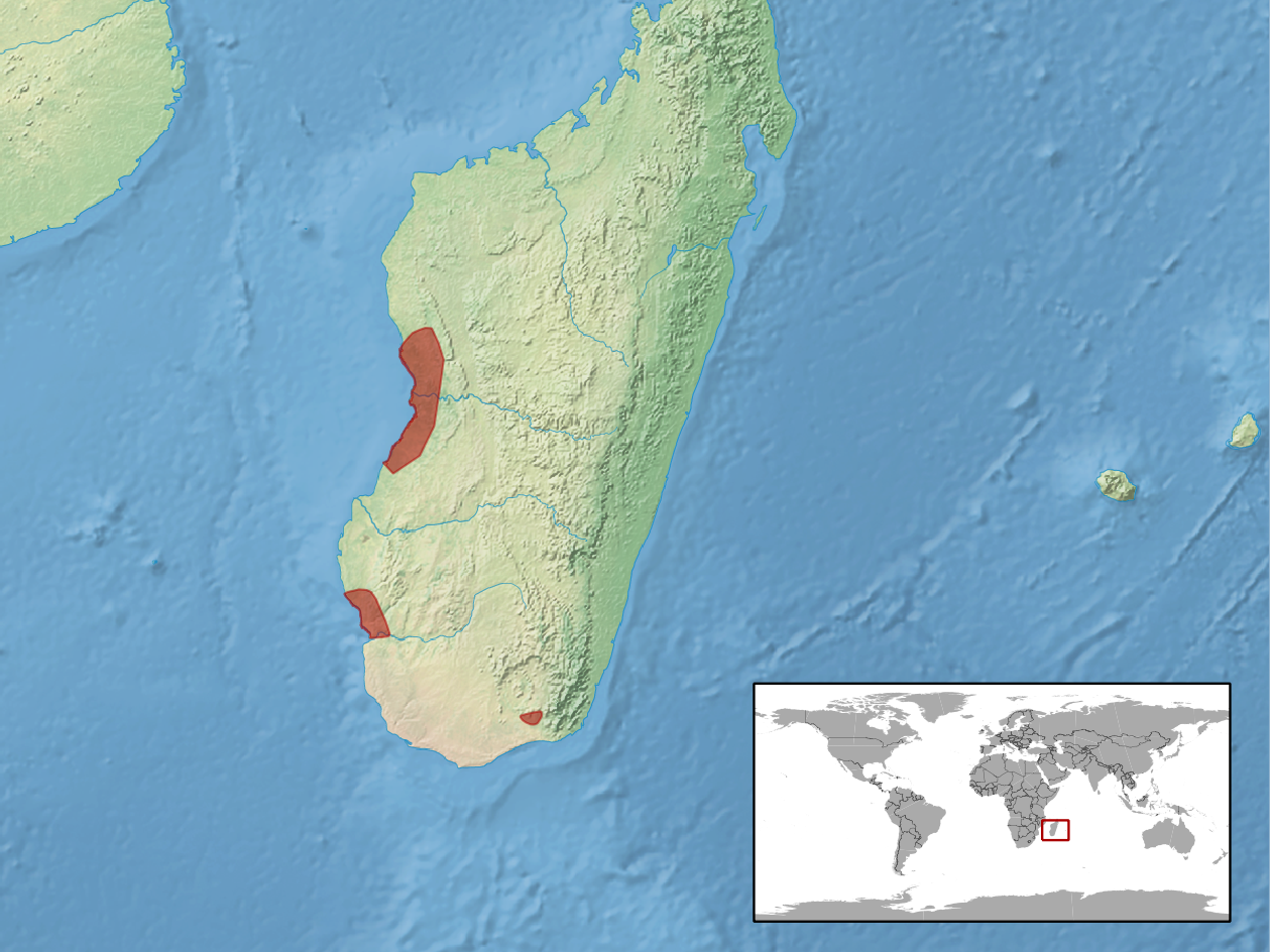 geographic distribution of Trachylepis dumasi